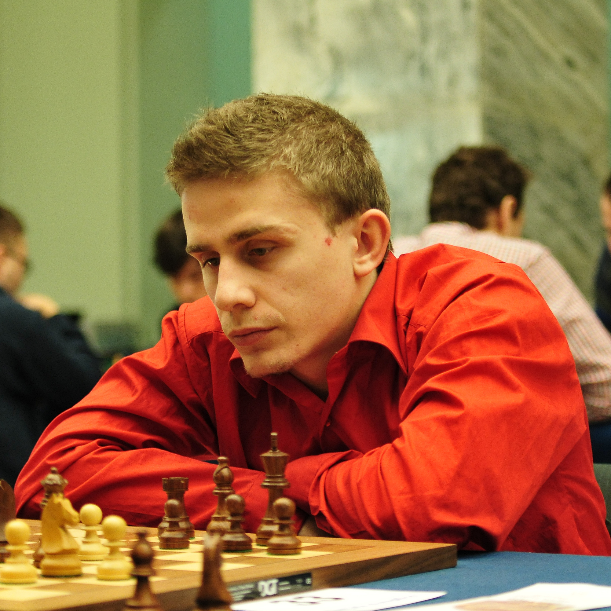 IM Vojtech Plat, European Rapid Chess Championship, Warsaw 2013.